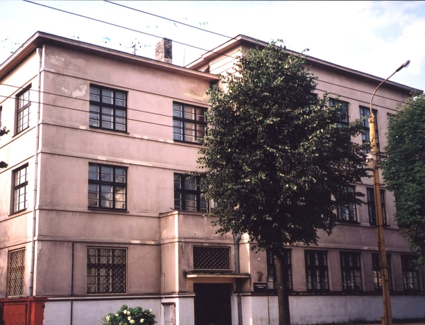 The former Kaunas Hebrew Realgymnasium building in Kaunas, Lithuania